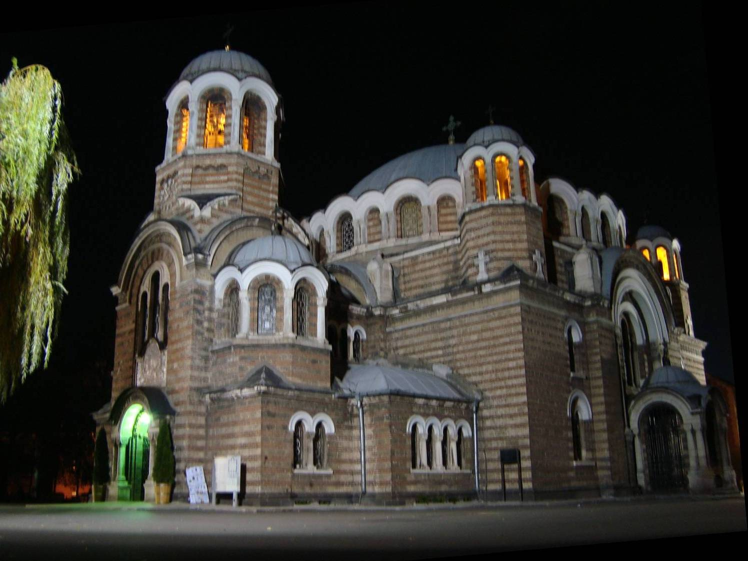 Sveti Sedmochislenitsi Church, Sofia, Bulgaria